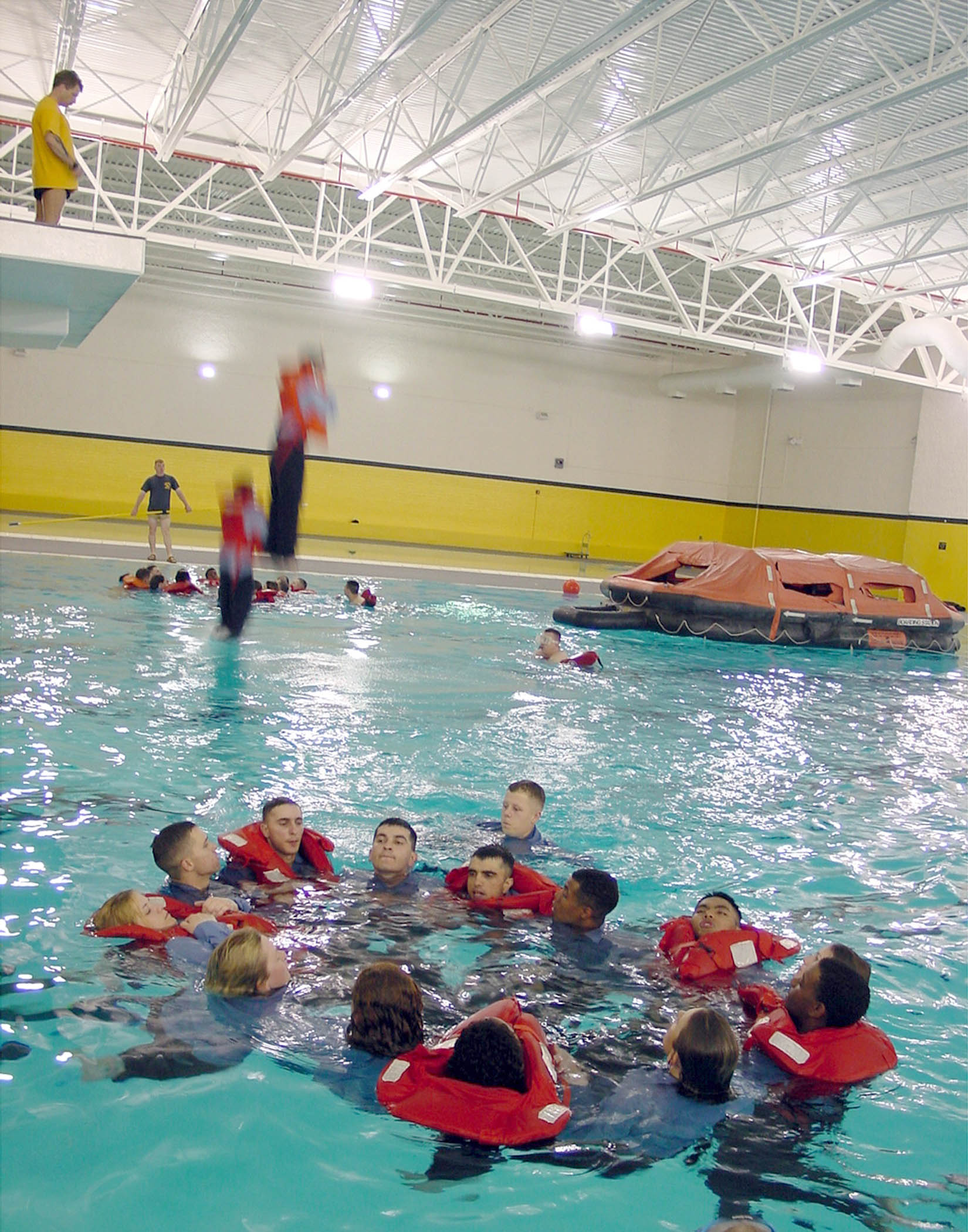 010529-N-0000W-001 North Chicago, IL (May 29, 2001) -- Navy Recruits from recruit division 195 are given the scenario that their ship is lost and they must abandon ship. The recruits are jumping into the pool and must buddy up into teams and swim to the life raft and successfully climb aboard without incident. This "abandon ship" drill is a portion of "Battle Stations" at recruit training, Great Lakes IL. "Battle stations" is the last major hurdle of basic training and helps prepare the recruit for the fleet. U.S. Navy Photo by Photographer's Mate 1st Class Michael Worner. (RELEASED)